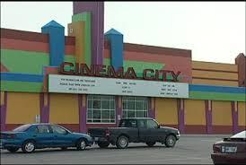 Cinema City, Winnipeg